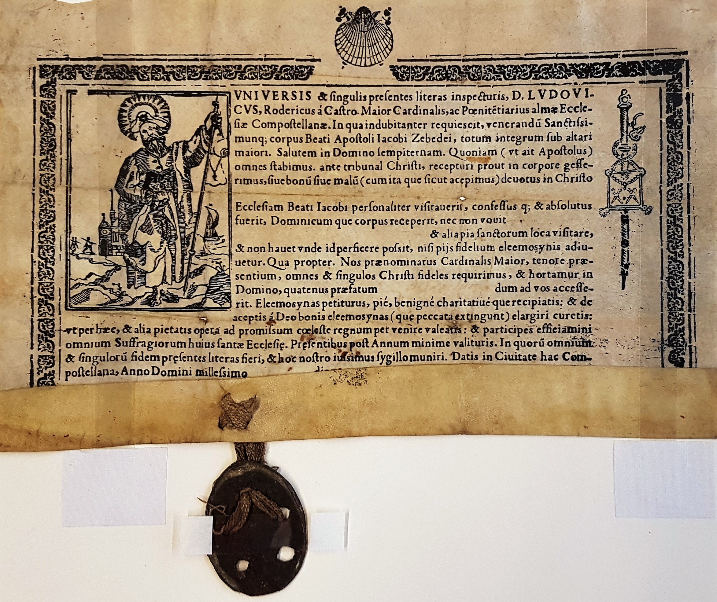 Compostela Roermond 1614